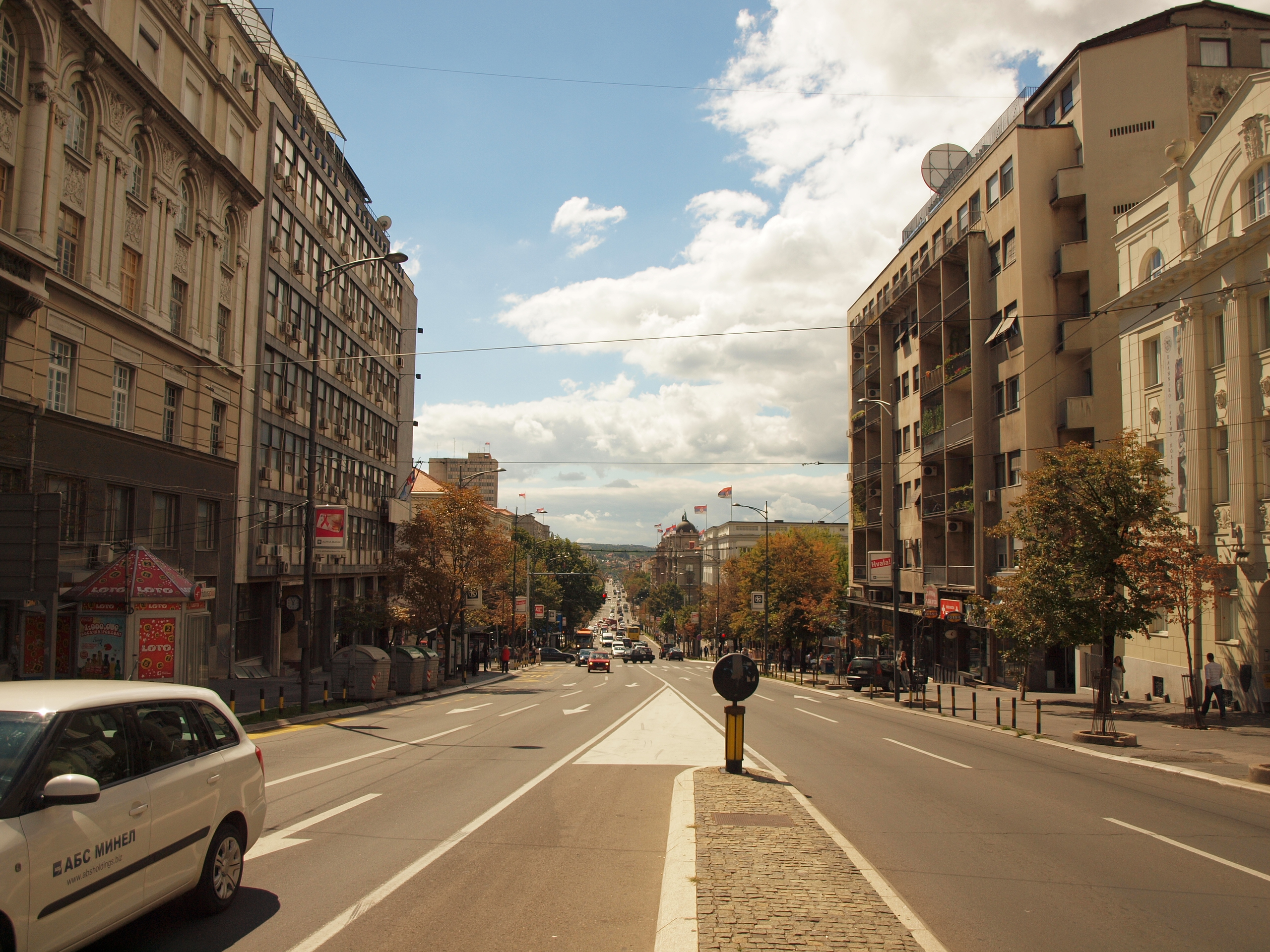 U. k. M. B.